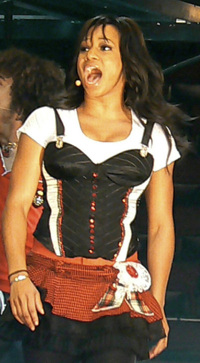 Monique Coleman on the set of Disney's High School Musical 2